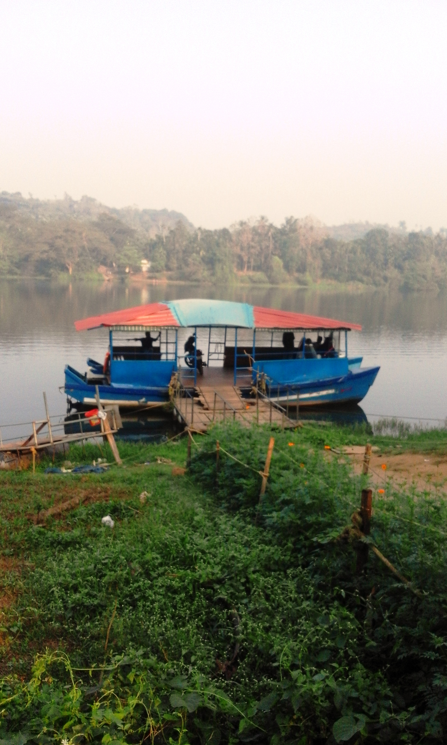 Elamaram, Edavannappara, Kondotty, Malappuram District, Kerala province, India.